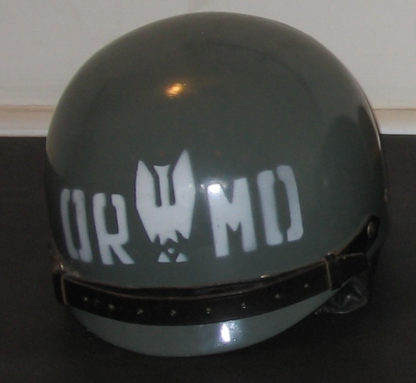 helmet of "ORMO"-officer, semi-civil militia of communist Poland